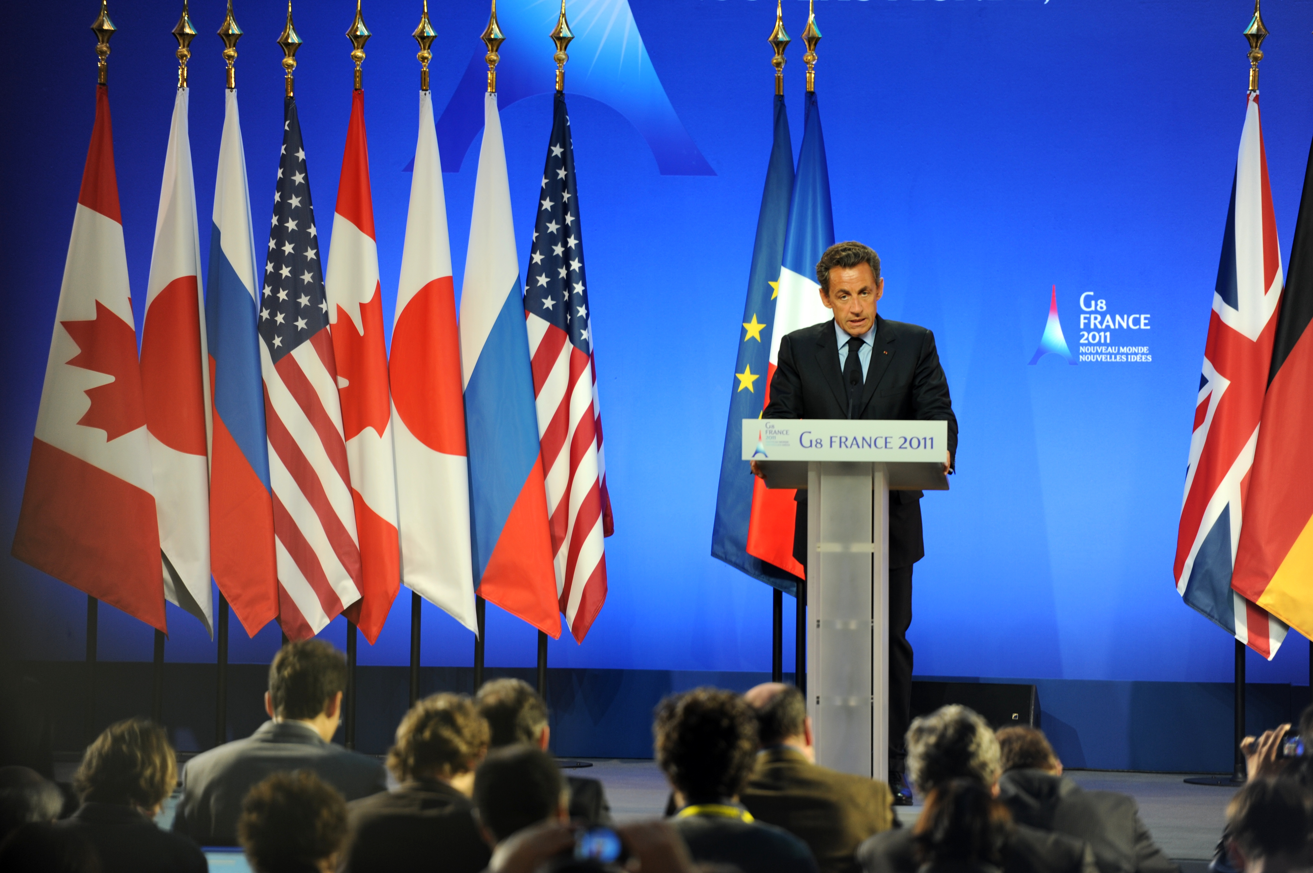 Nicolas Sarkozy, President of the French Republic, at his press conference on the first day of the 37th G8 summit in Deauville, France.